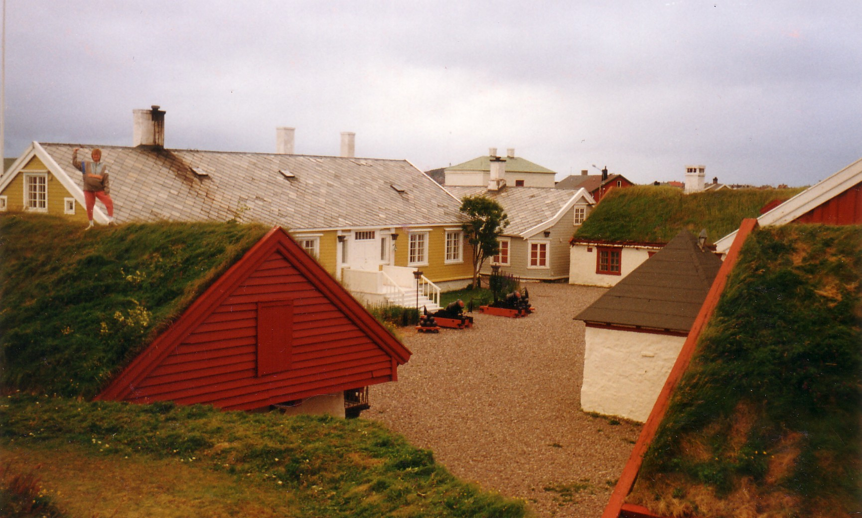 Vardøhus Fortress in Vardø, North Norway. The tree at the corner of the commanding officer's house is the arctic city's only tree.